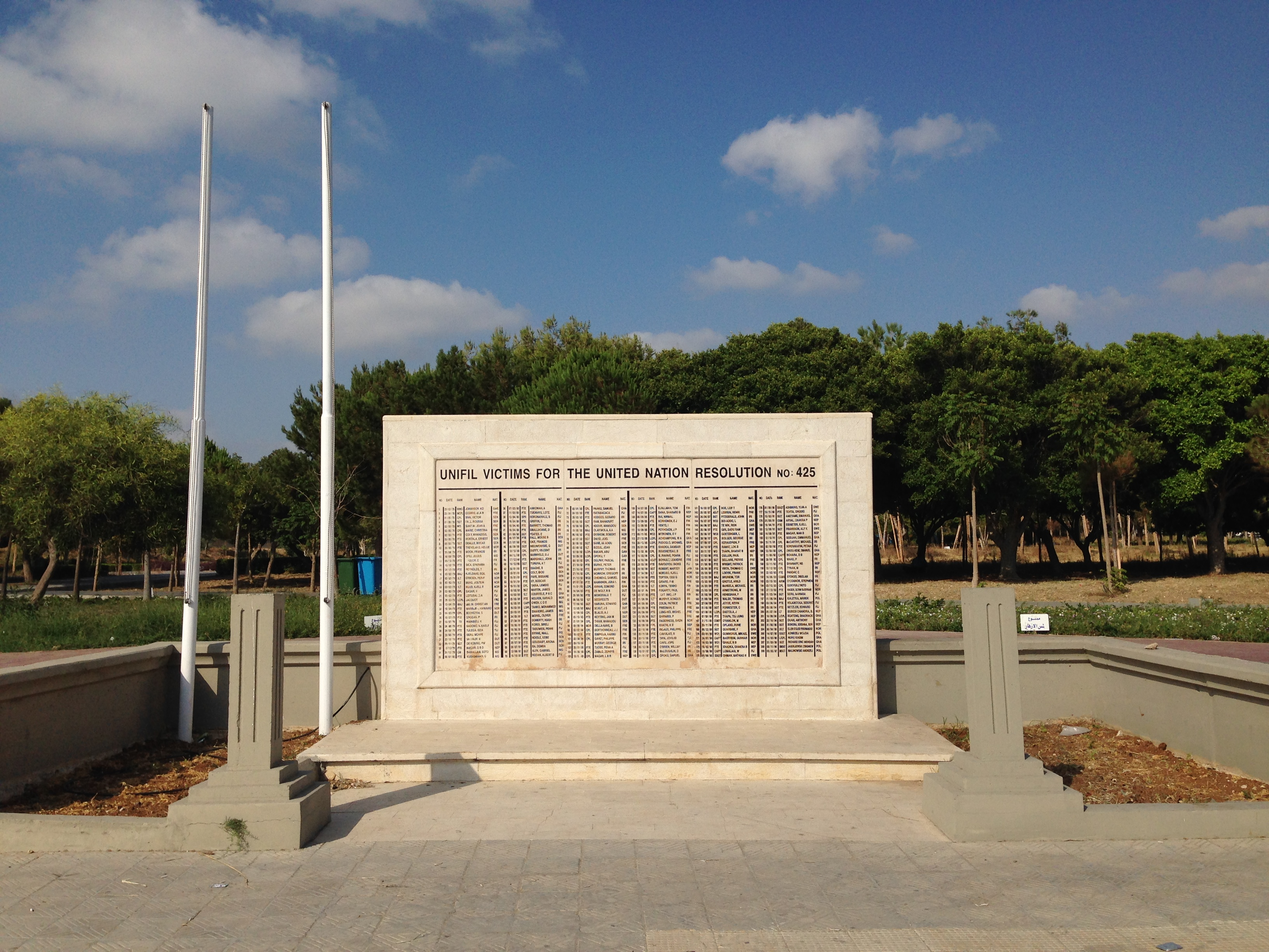 Unfinished memorial for UNIFIL casualties with an incomplete list of names at the roundabout of "Rue president Nabih Birri" and Dr. Ali El Khalil Street in Tyre, Southern Lebanon in July 2019